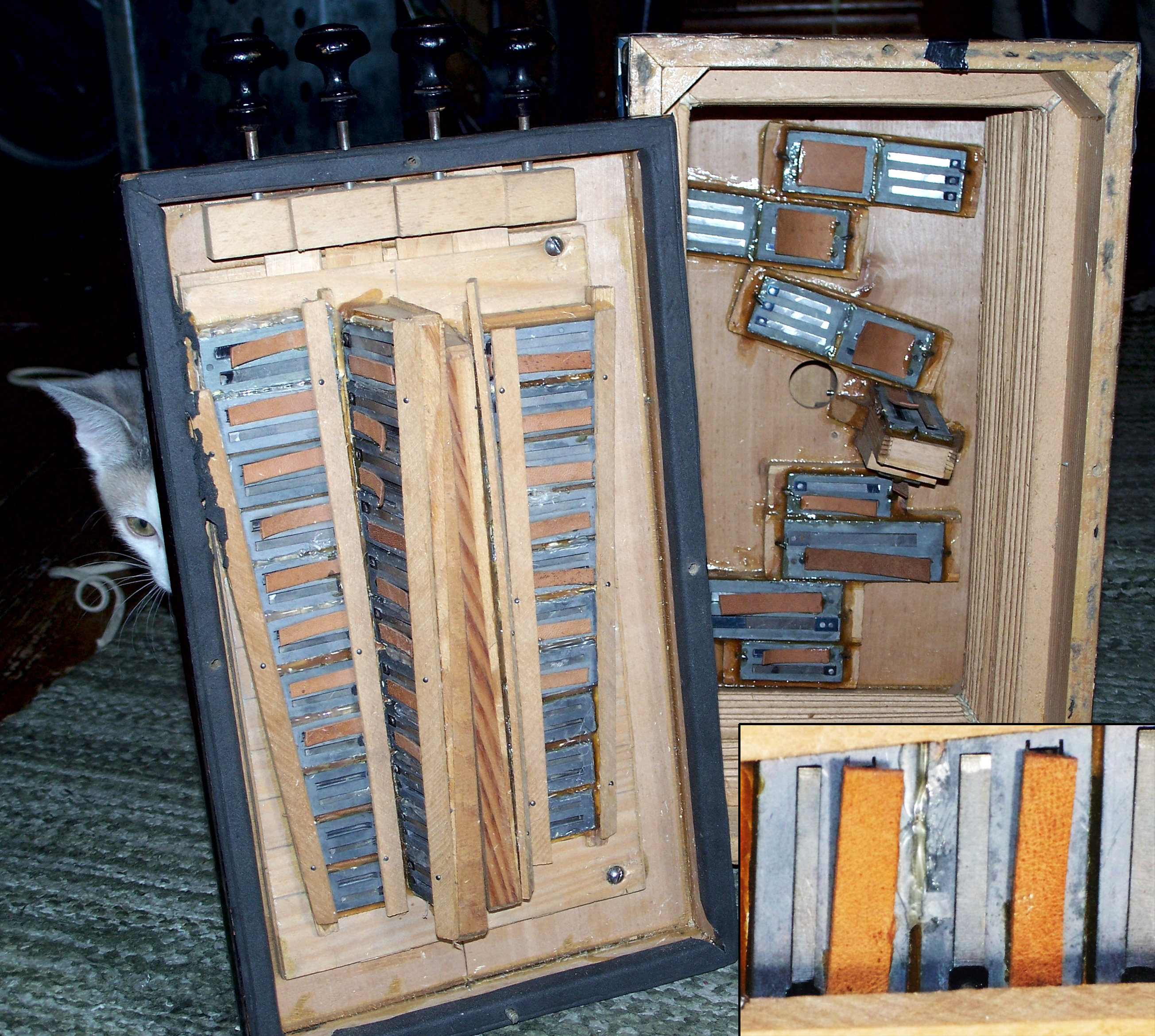 This is a picture I took of my early 20th century Lester button accordion. The accordion is open, showing the reeds with an inset showing a closeup. It is provided for use on Wikipedia. It may be used freely elsewhere as long as it is credited to Nathan McKnight. There is also a picture of the outside, here: :Image:German button accordion.jpg.